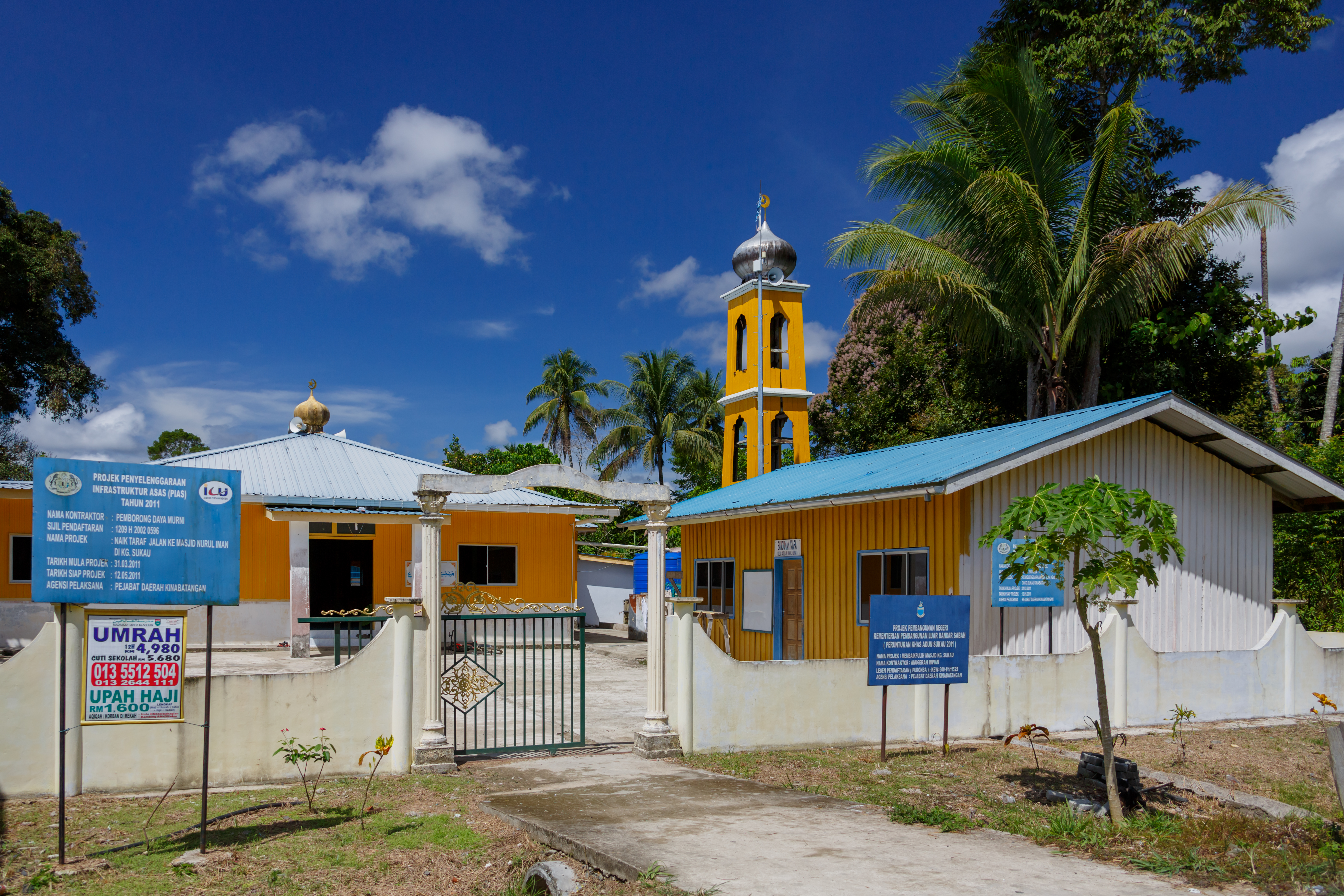 Sukau, Sabah: Masjid Nurul Iman at Kampung Sukau